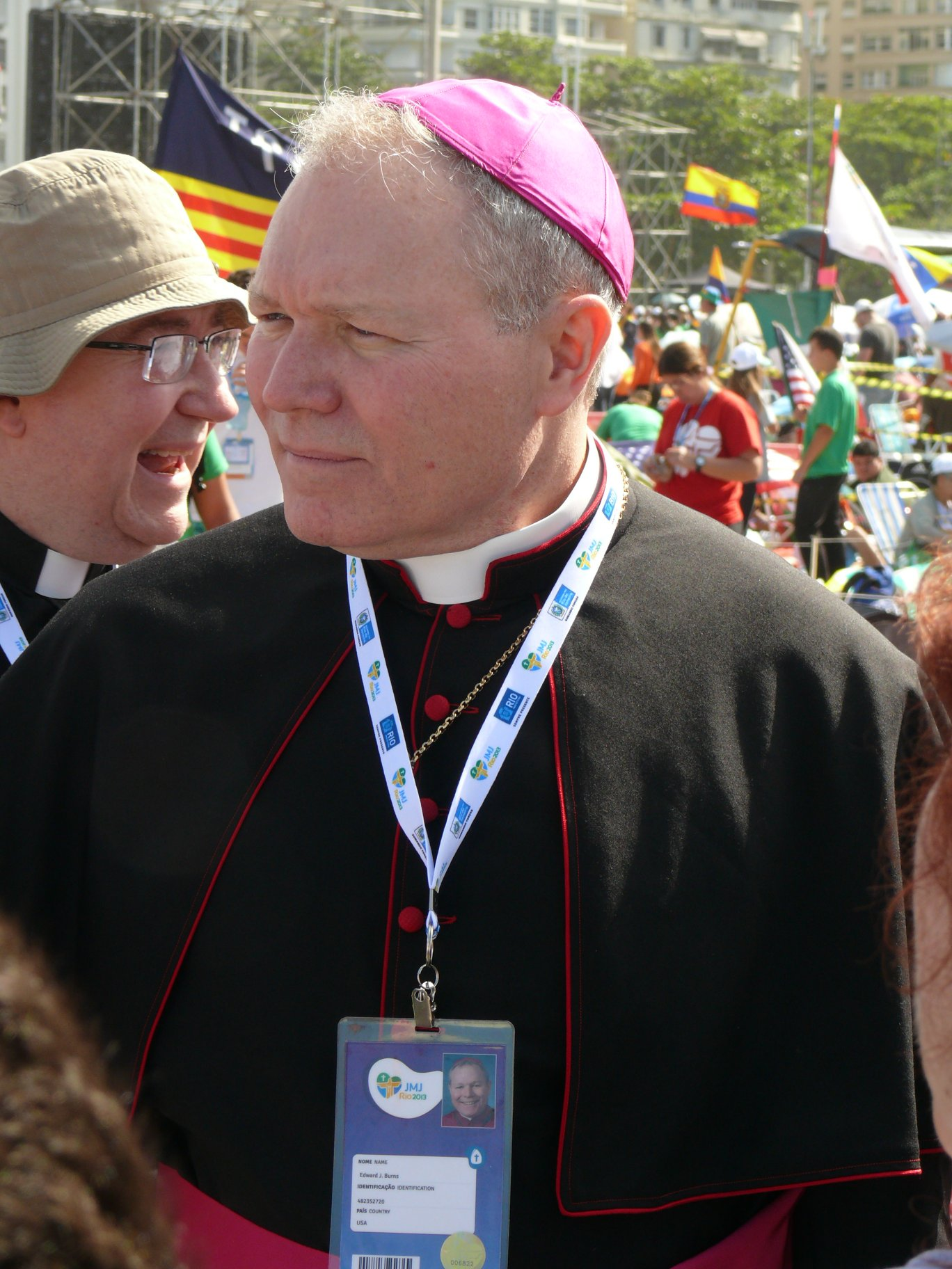 Bishop Edward James Burns of Juneau (Alaska, USA) during World Youth Day 2013 in Rio de Janeiro (Brazil).